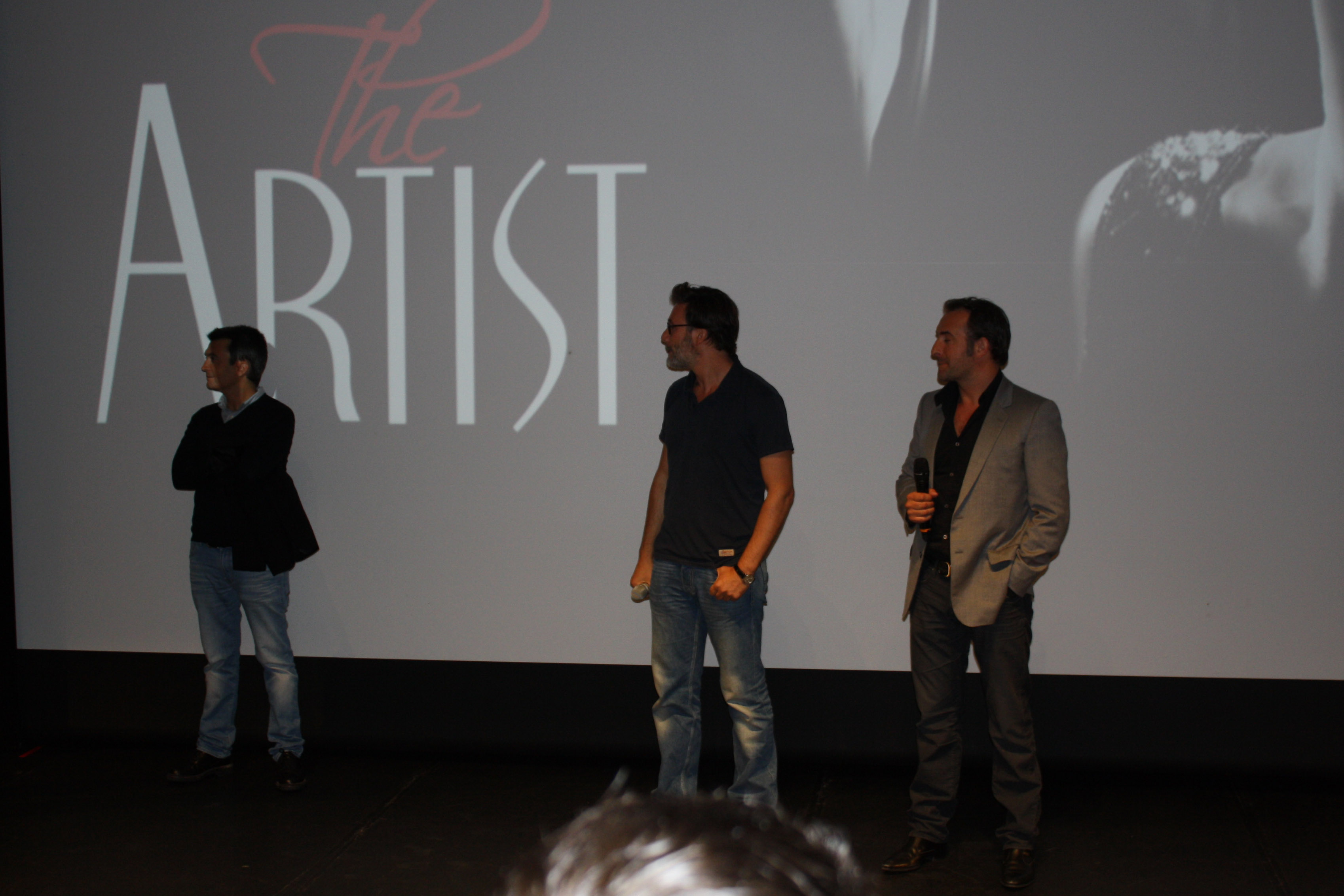 Thomas Langmann, Michel Hazanavicius, Jean Dujardin, lors d'une projection de The Artist.